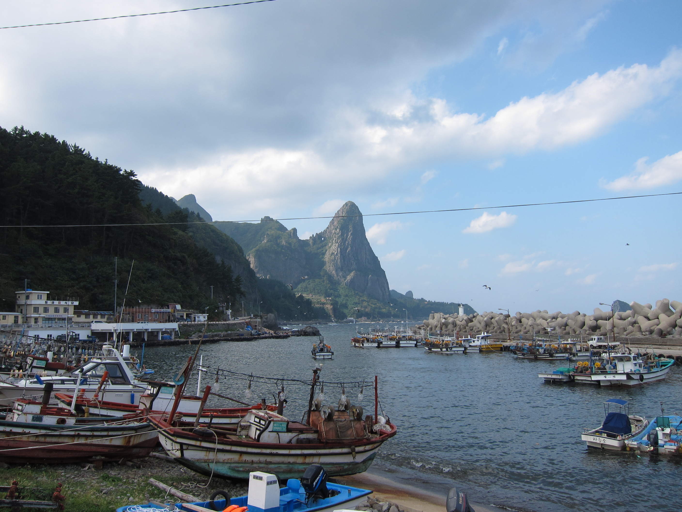 View of Ulleungdo